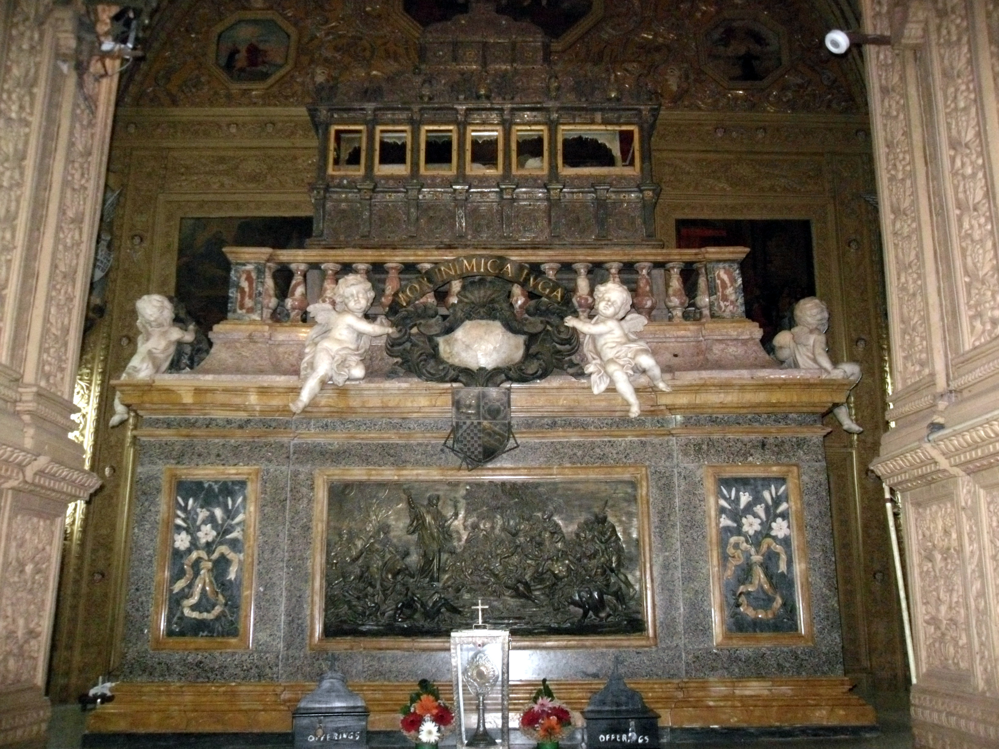 Basilica of Bom Jesus